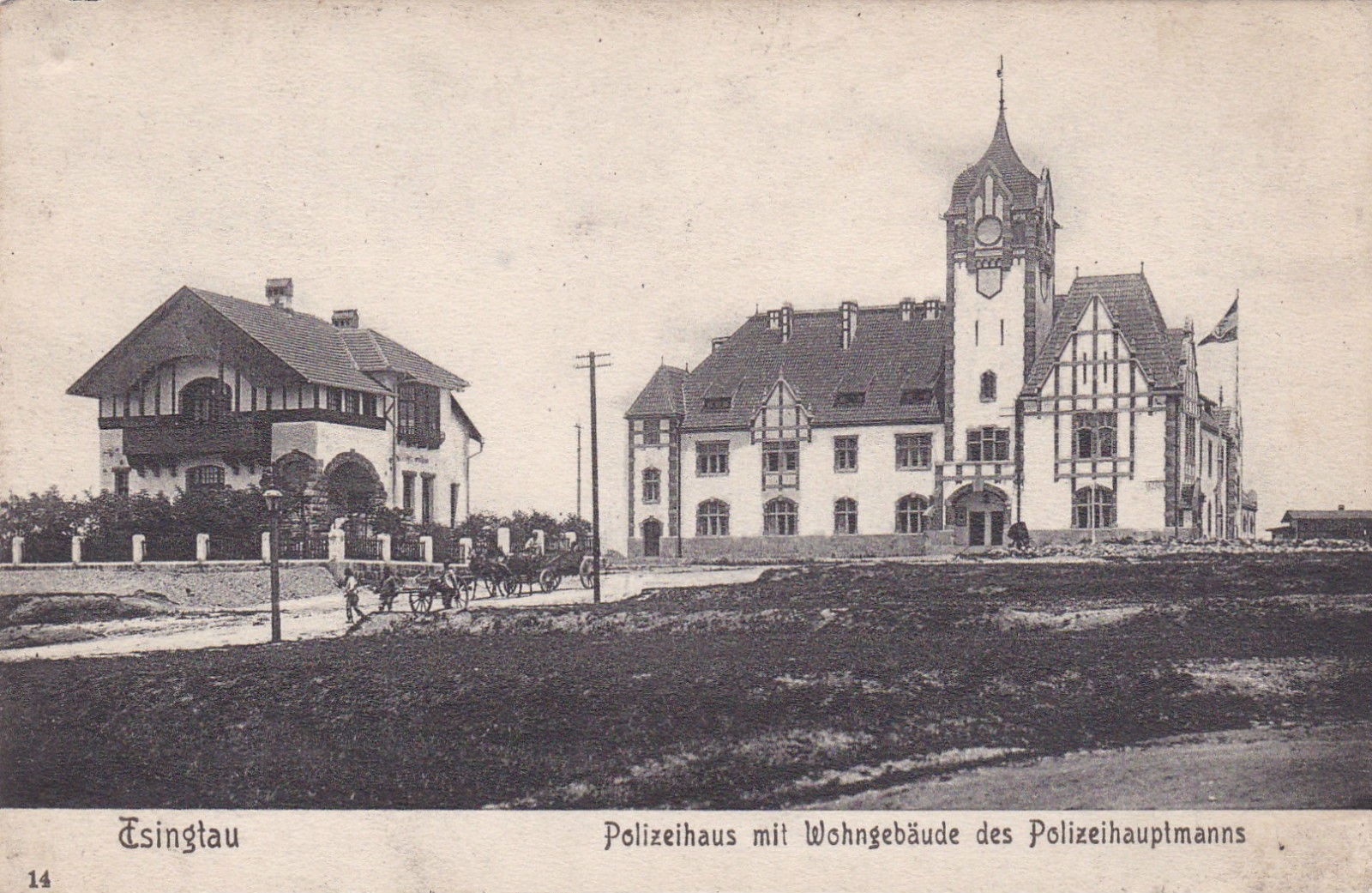 German Police Bureau in Tsingtau/Qingdao